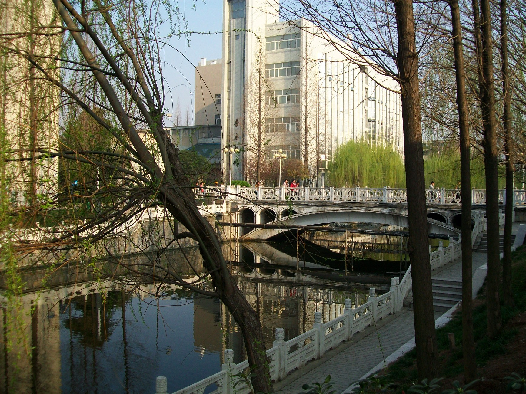 Fuyang Teachers College, Qinghe Campus, also called the East Campus. The east campus is older and generally has more natural scenery than the west campus.